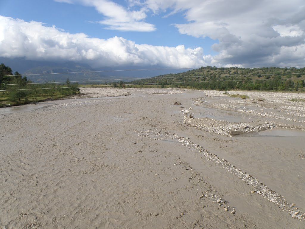 Ribeira Lequinamo. A muddy flooded braided stream west of Laga village